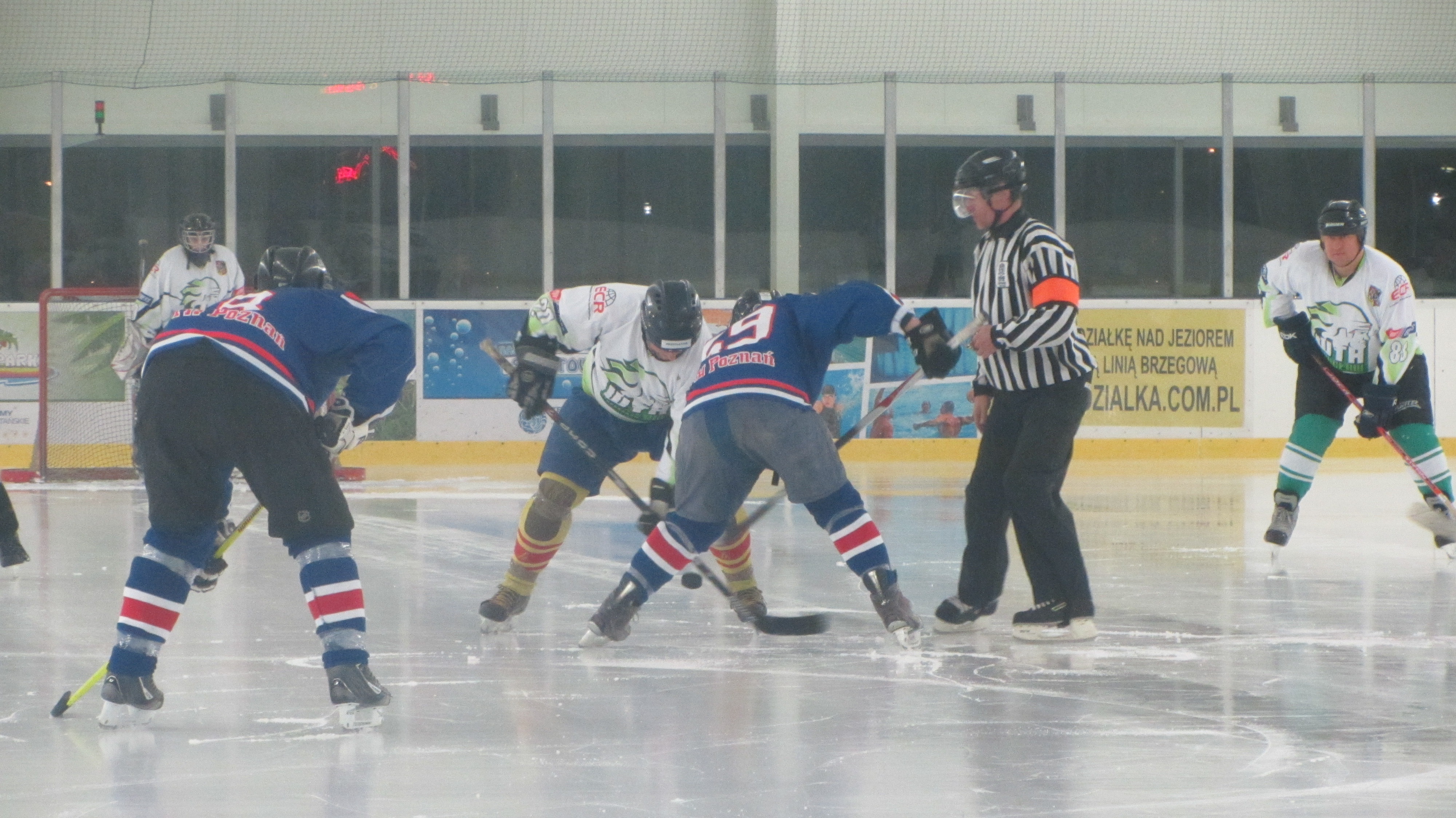 The final match of West Group (2nd League) between PTH Poznań and WTH Wrocław.